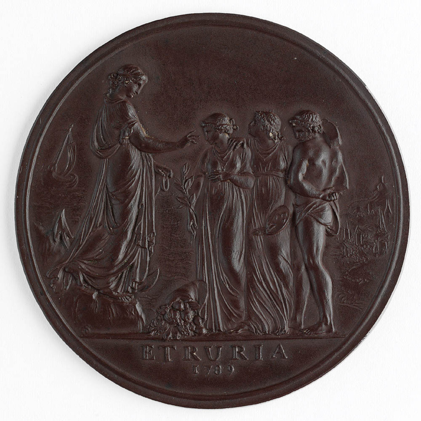 Sydney Cove medallion, 1789, red ochre clay, modelled by William Hackwood after a design by Henry Webber, original issue, Josiah Wedgwood